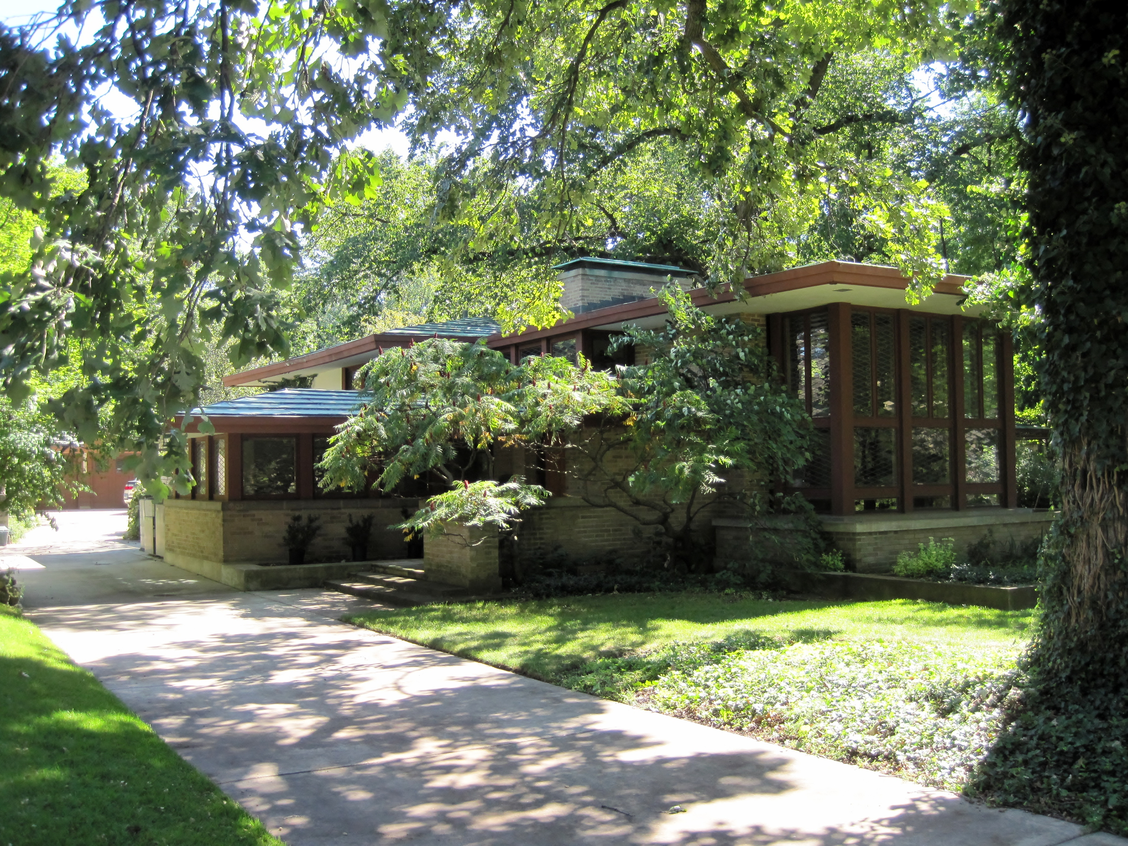 The Isabel Roberts house in the River Forest Historic District (1908). Roberts worked for Wright, probably as a secretary or office manager. She also designed some of the glass windows for Wright's houses, and is considered one of the founders of the Prairie School. Roberts herself probably designed the house, although it is officially credited to Wright. It was later remodeled by William Drummond.